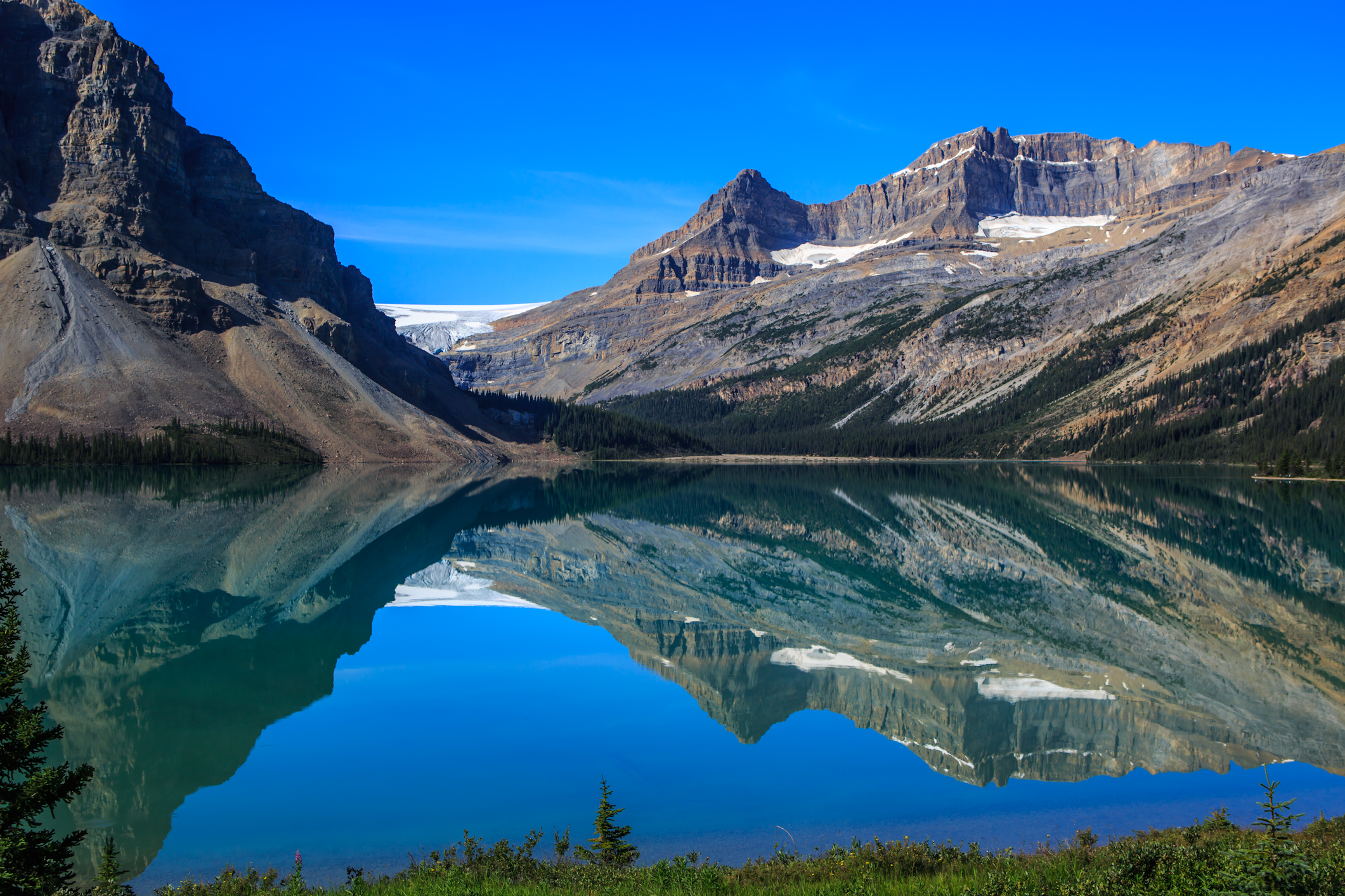 Bow Lake reflections